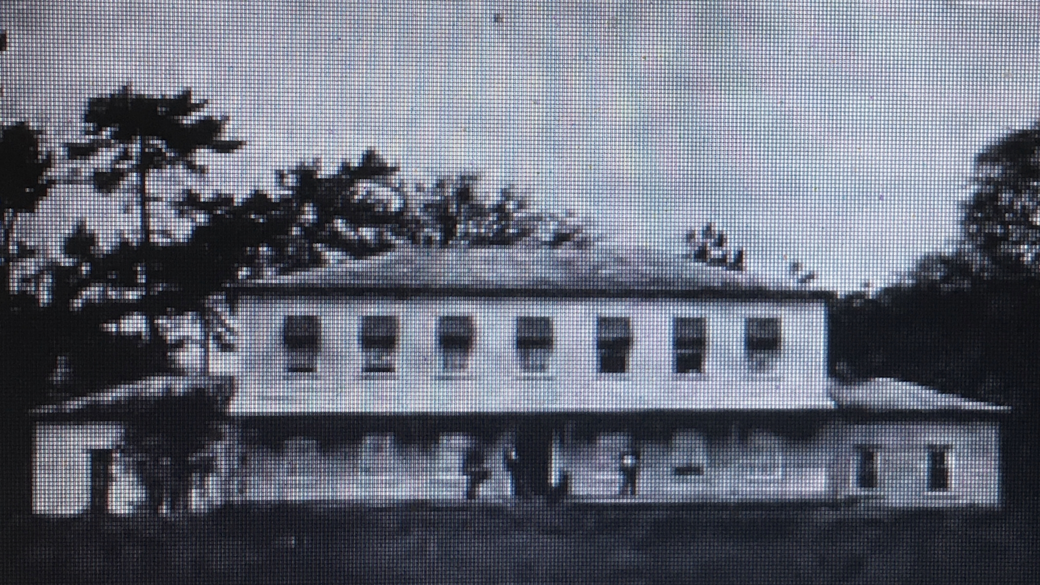 Prison St. Helena